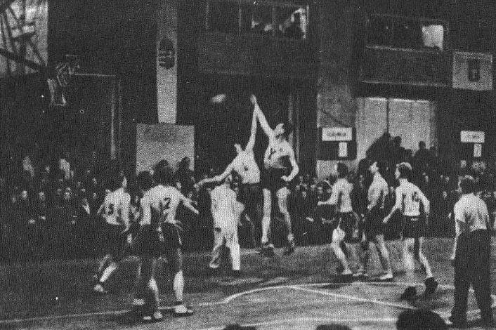 Game moment from EuroBasket 1937 game between Lithuania and Estonia.